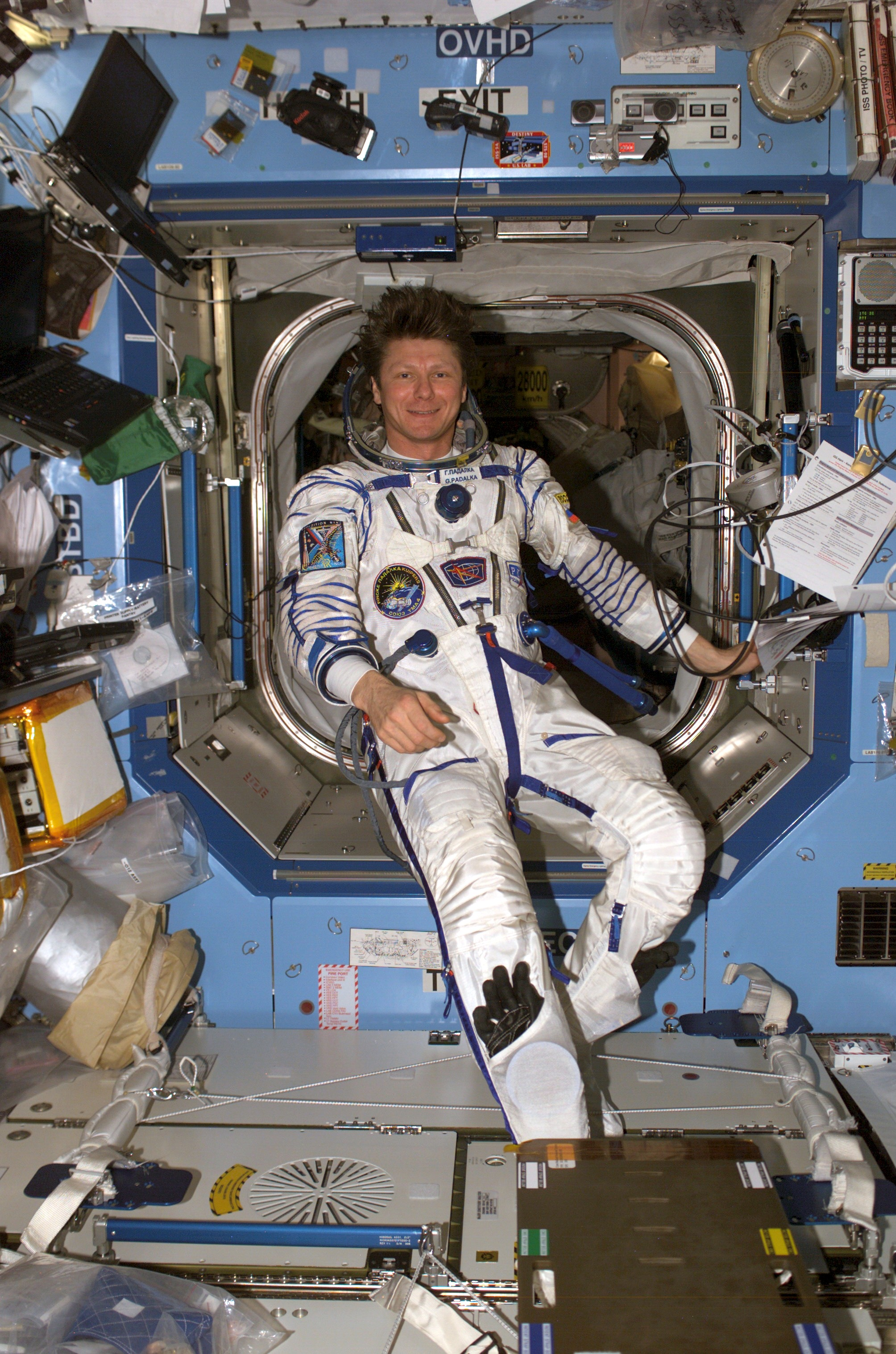 Cosmonaut Gennady I. Padalka, Expedition 9 commander representing Russia's Federal Space Agency, wearing a Russian Sokol suit, floats in the Destiny laboratory on the International Space Station (ISS).